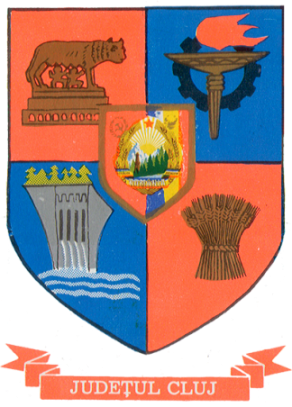 Communist coat of arms of Cluj County, Socialist Republic of Romania.